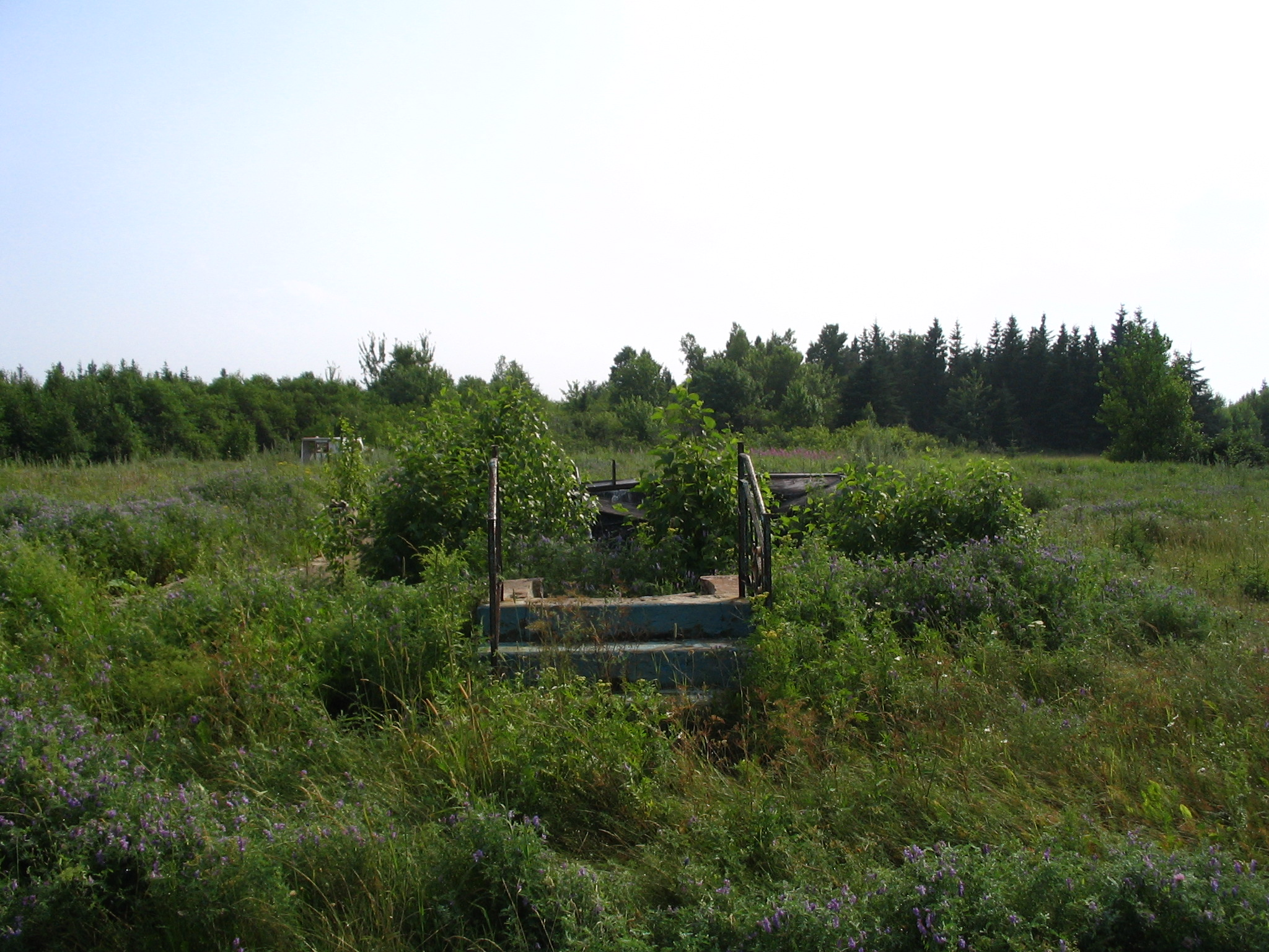 ruins of the house of augustin and evelinne, Pokesudie, New Brunswick